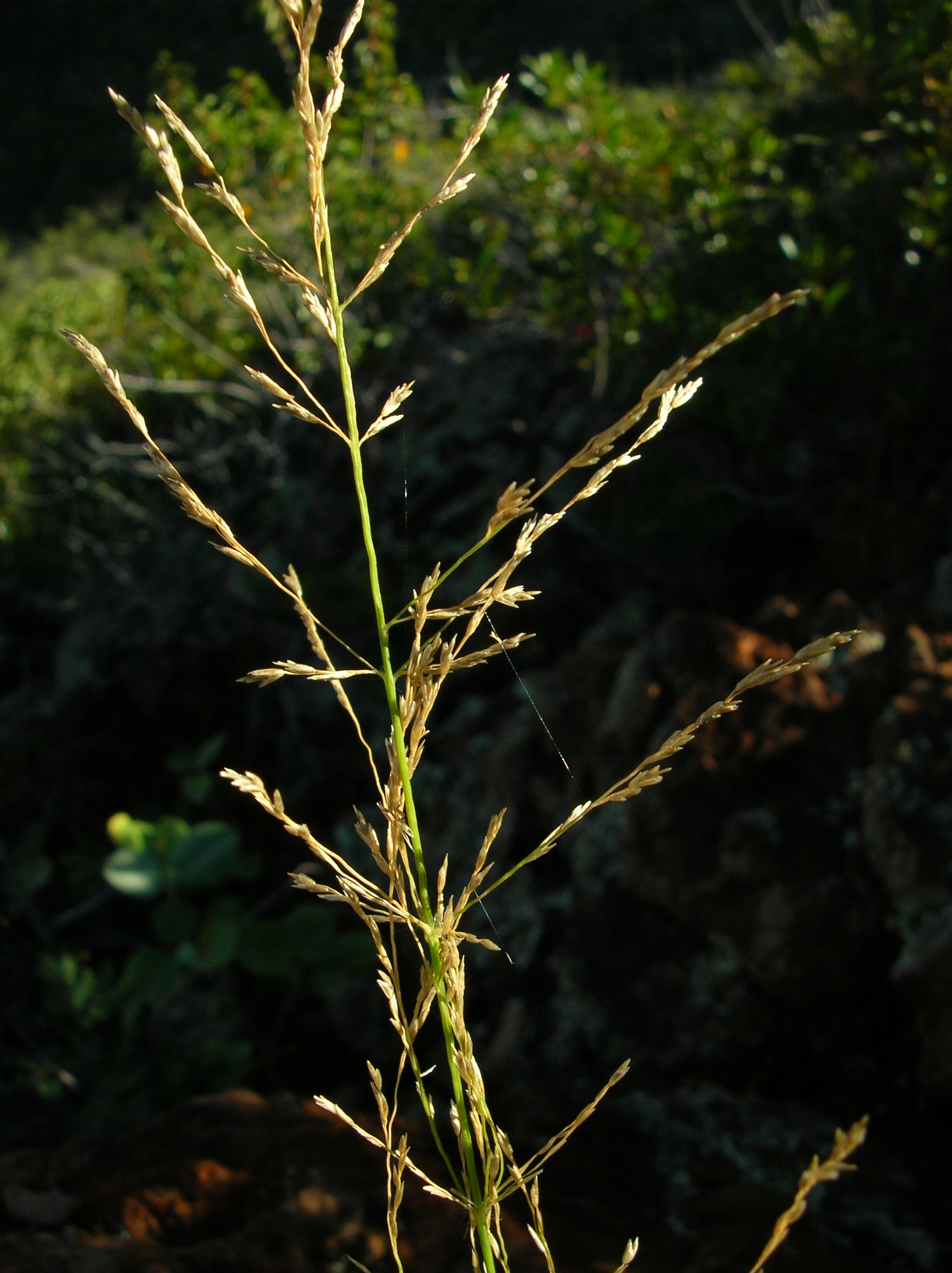 Eragrostis atropioides (seed heads). Location: Maui, Lihau